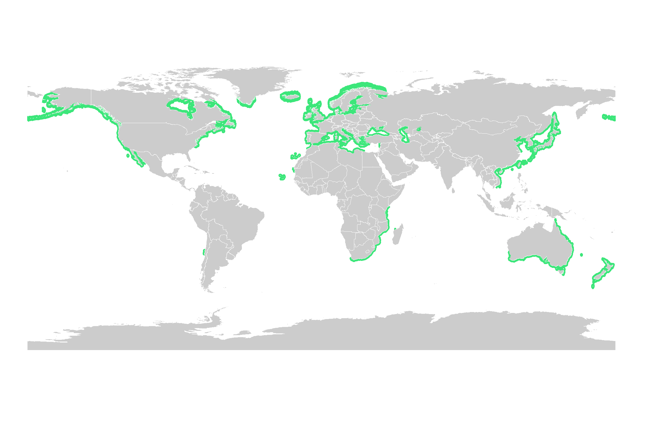 Distribution map of genus Zostera from IUCN.